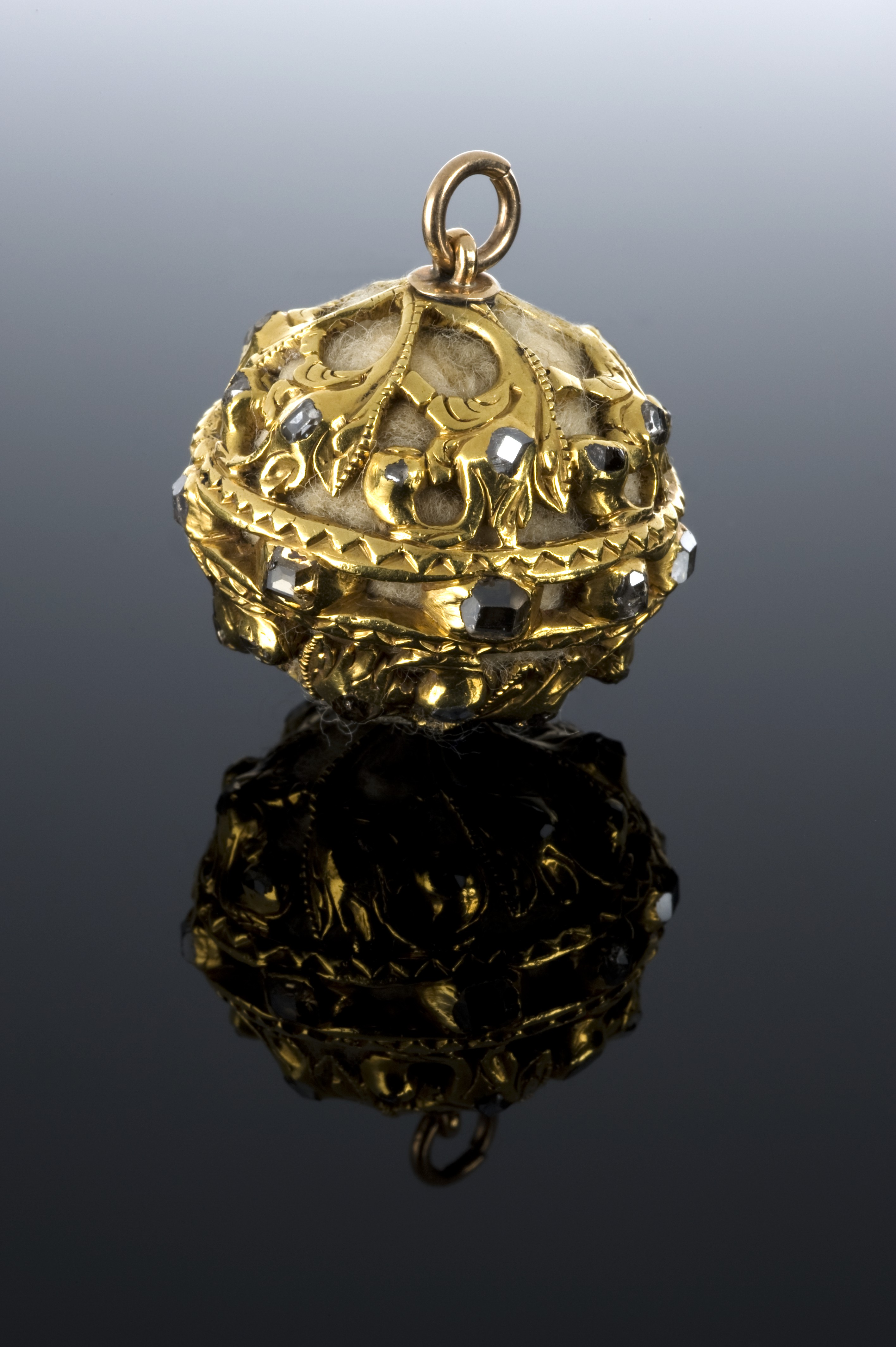 A small selection of pomanders of different shapes and construction. Full view, graduated black perspex background. Wellcome Images